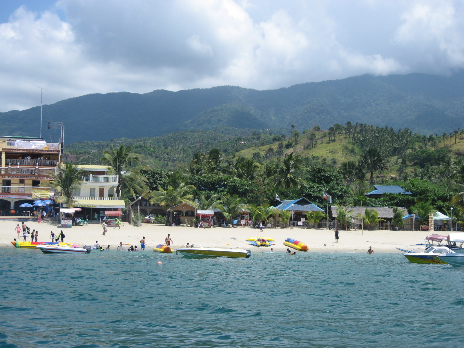 White Beach in Puerto Galera, Oriental Mindoro, Philippines from the sea (about 75 meters from the shore).